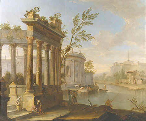 A Capriccio Landscape with Figures and Classical Ruins by a River, Willem van der Hagen, Oil on canvas, 53 x 64 in, 135 x 163 cm, Provenance: Pallister House (later Loreto Abbey), Rathfarnham, County Dublin. Pyms Gallery Exhibit 20th June - 27th July 2001.